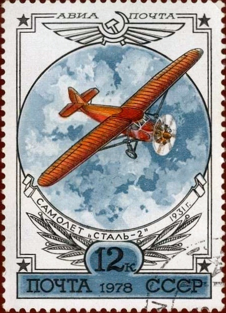 1978 Soviet Union 12 kopeks stamp. Putilov Stal-2.